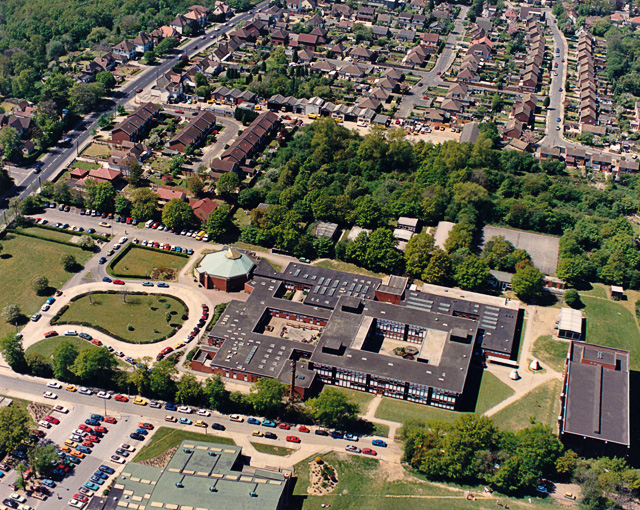 Aerial view of SEEVIC, Benfleet. At the time of this photo, in 1987, this was known as South-East Essex Sixth-form College, and given the acronym SEEVIC (VI for six). Today it has lost the sixth-form connotation, and bears the name of SEEVIC College. (See 746857 for an modern view.) The circular building at the upper left of the college is a theatre widely used for public events, as well as teaching. The road to the top left is the A13 (London Road). The building at the bottom is Runnymede Pool.